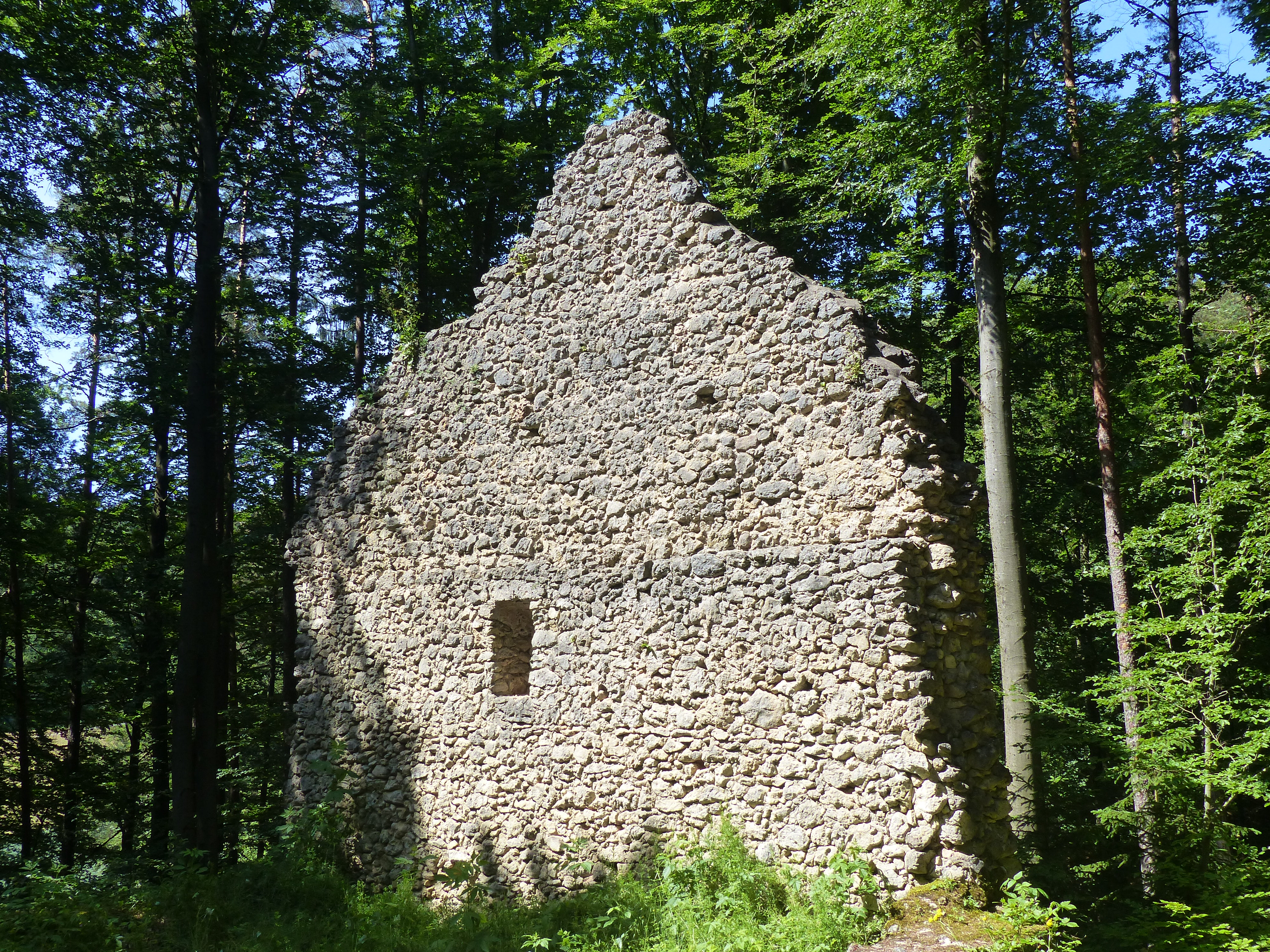 The ruin of the mountain church called Zum heiligen Bühl in the village Wölm, a district of the municipality Gößweinstein.